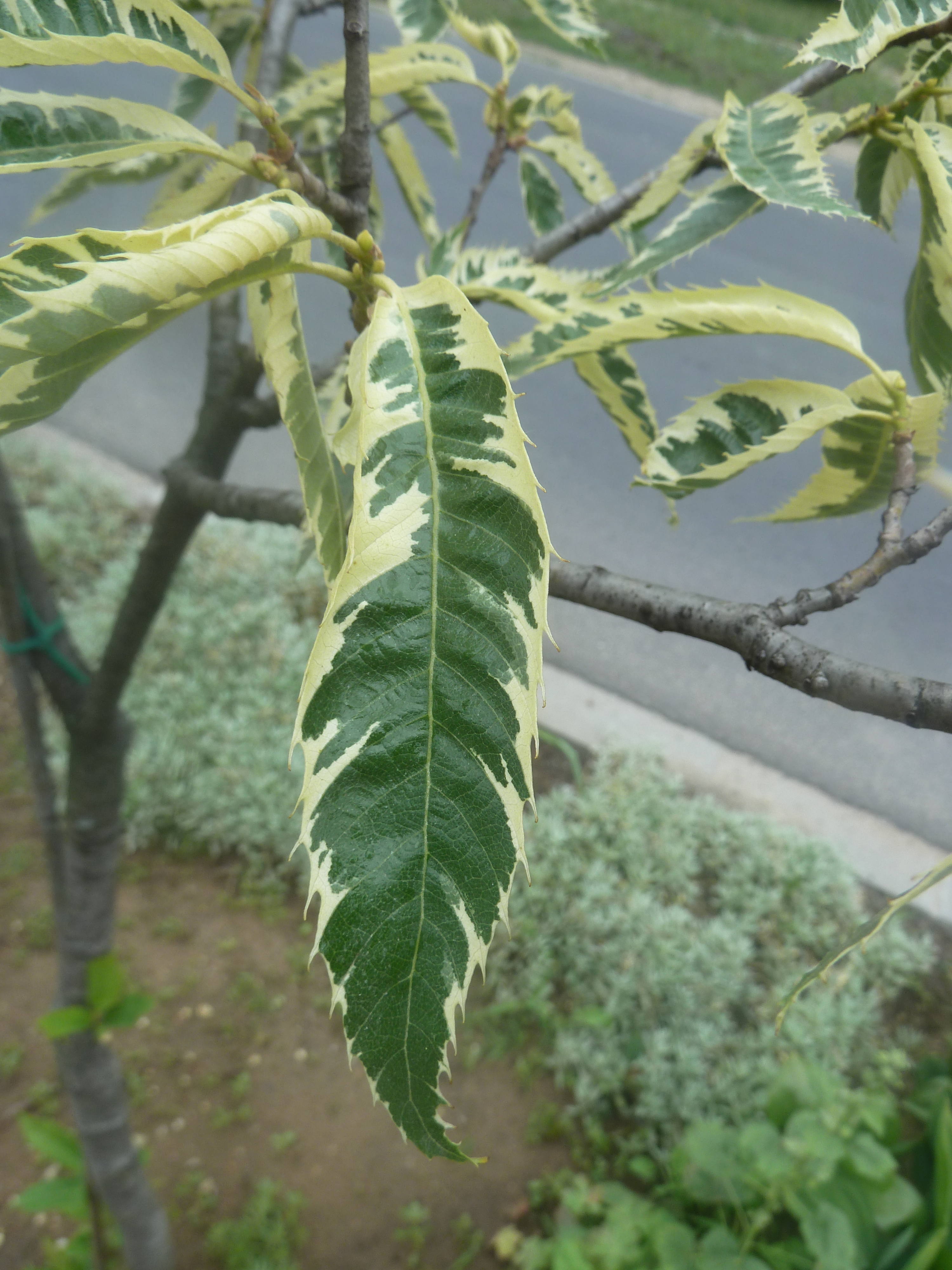 Castanea sativa 'Aureomarginata' leaves